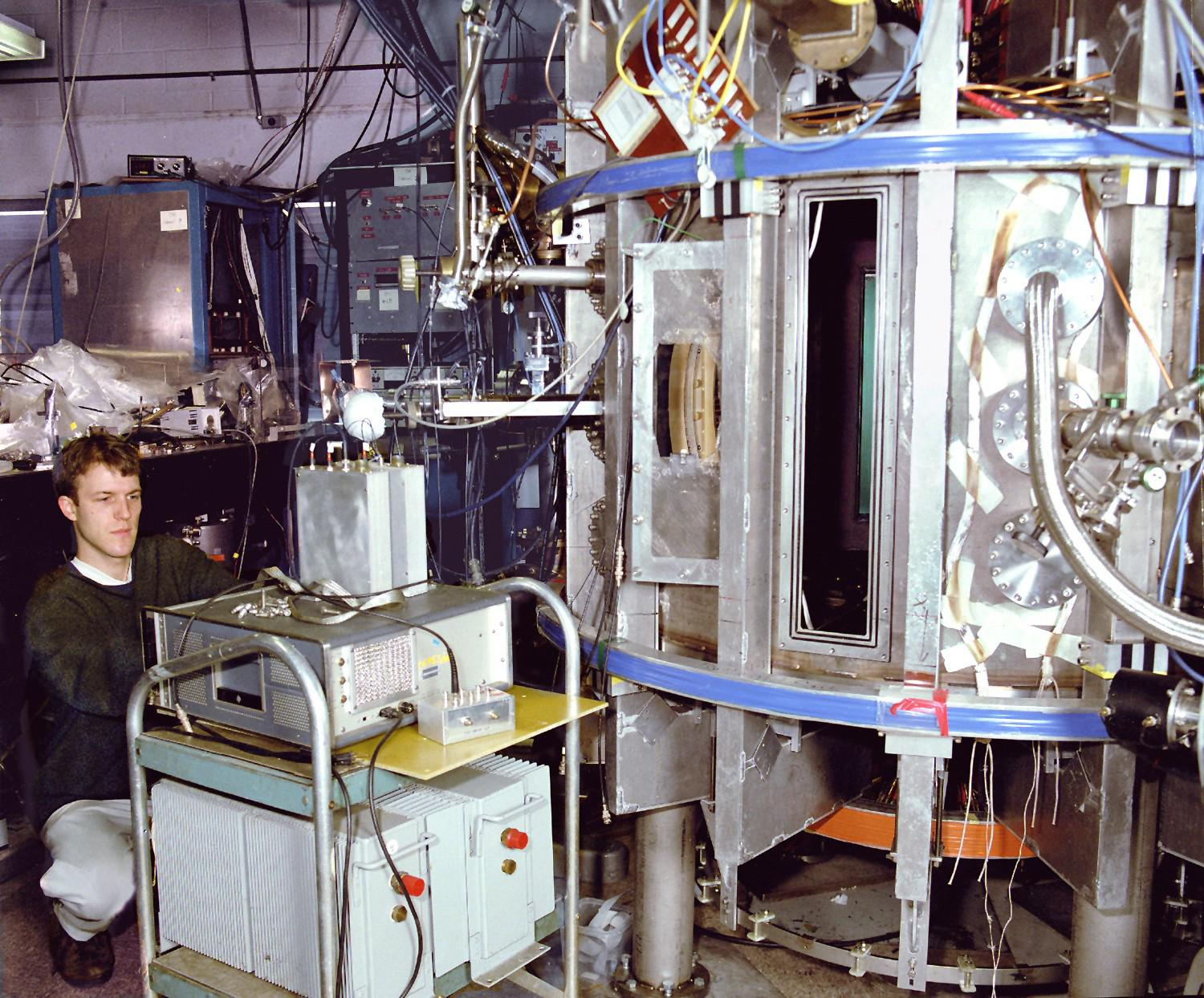 PPPL SCIENTIST AT THE CURRENT DRIVE EXPERIMENT-UPGRADE (CDX-U). EXPERIMENTS IN PROGRESS ON THE CURRENT DRIVE EXPERIMENT-UPGRADE MAY LEAD TO IMPROVED PLASMA PERFORMANCE IN THE NEAR TERM AS WELL AS SOLUTIONS AND DEVELOPMENTS IN PLASMA SCIENCE TECHNOLOGY. For more information or additional images, please contact 202-586-5251.